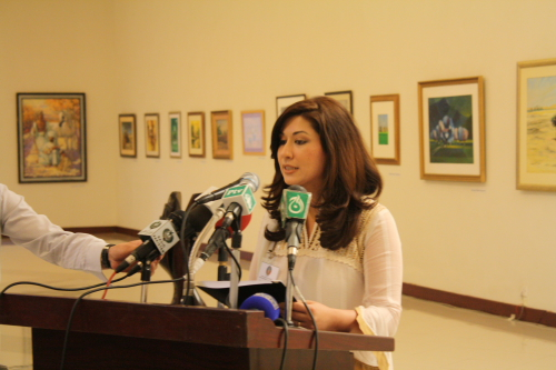 image of an exhibition curated by faiza khan